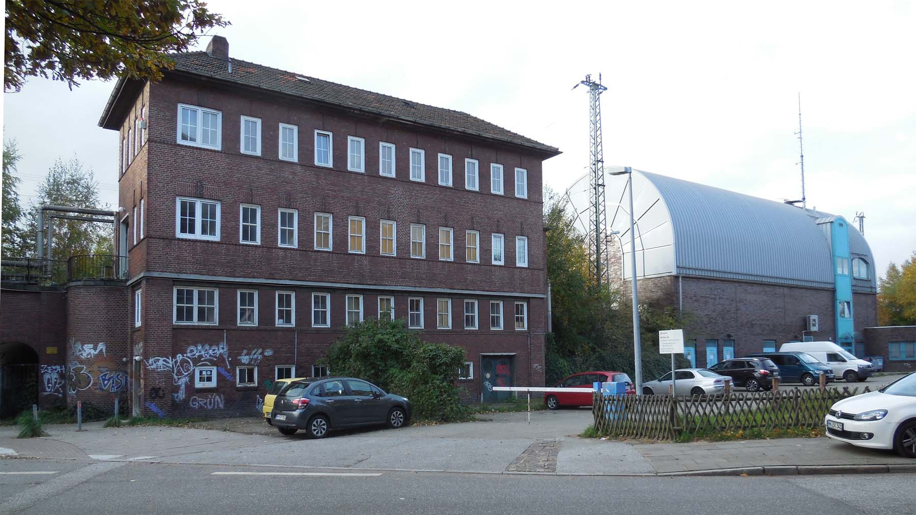 Altona railway station interlocking old and new building